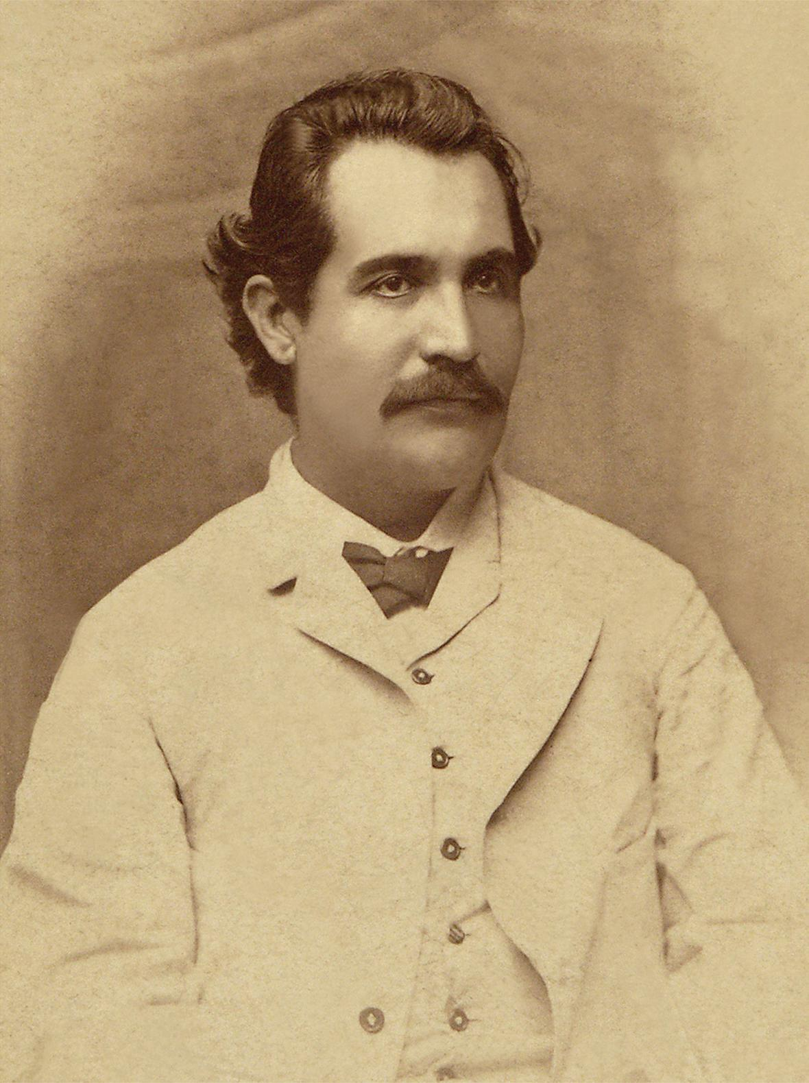 Portrait of Mihai Eminescu (1850 - 1889) - photograph by Nestor Heck, Iaşi, 1884